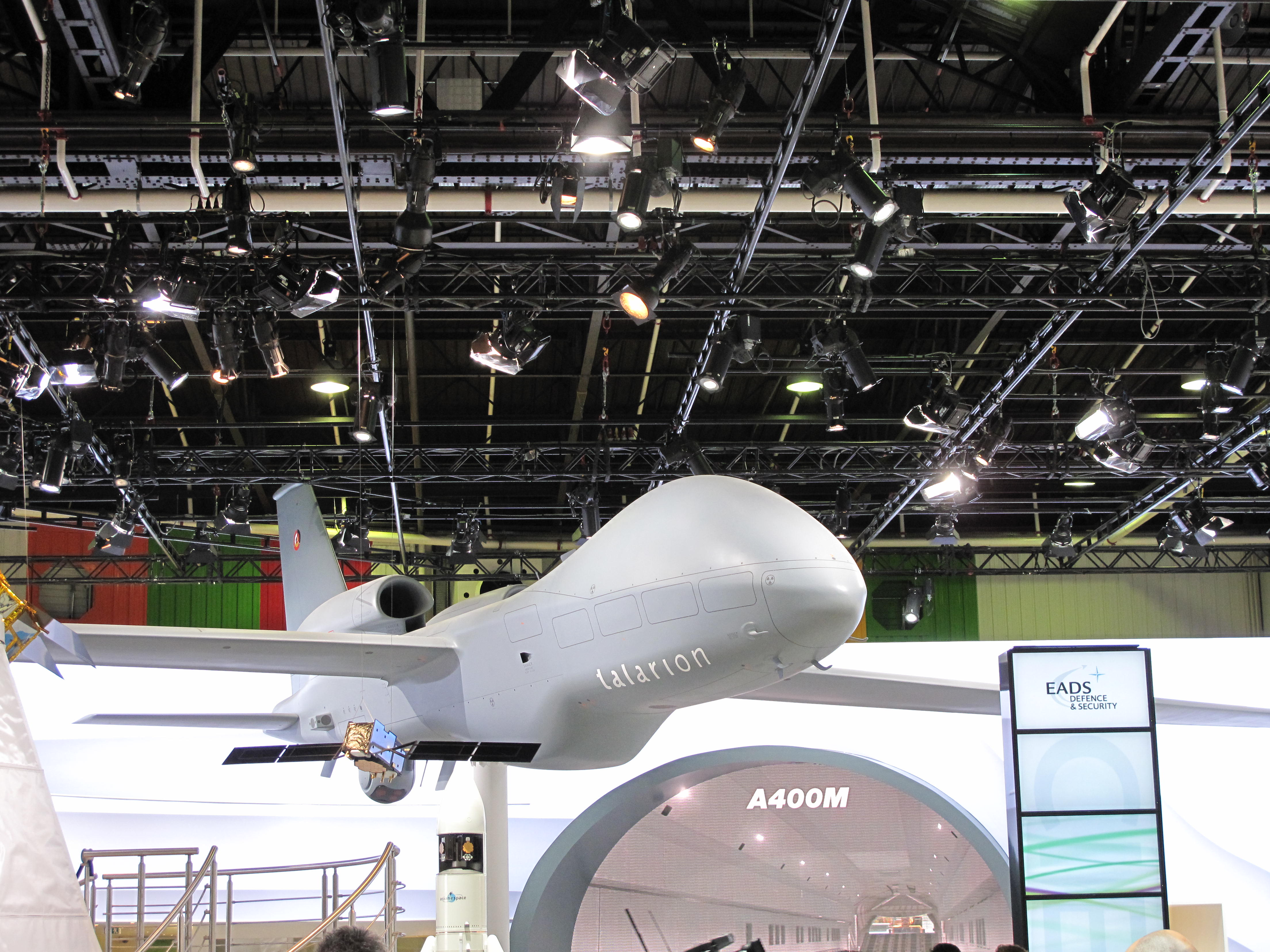 Mockup of EADS Talarion at the Paris Air Show 2009